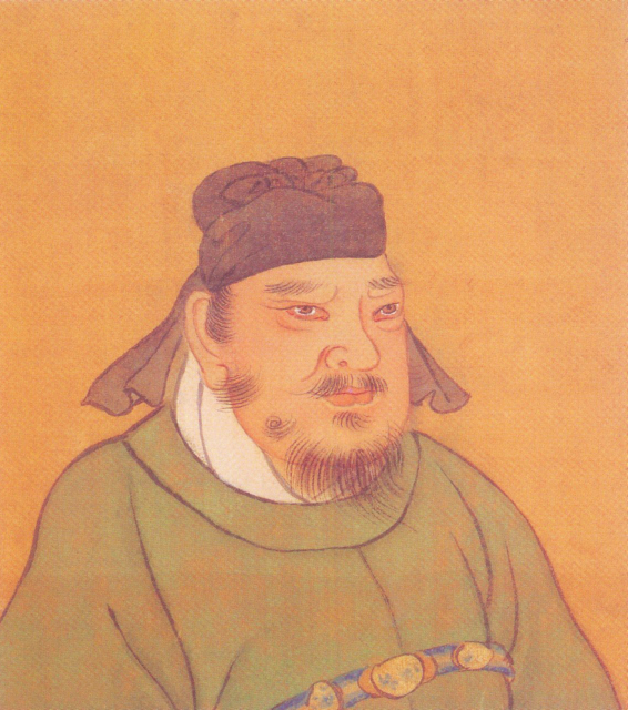 Fan Kuai was a general in ancient China who serve under the founding Emperor Liu Bang of Han Dynasty